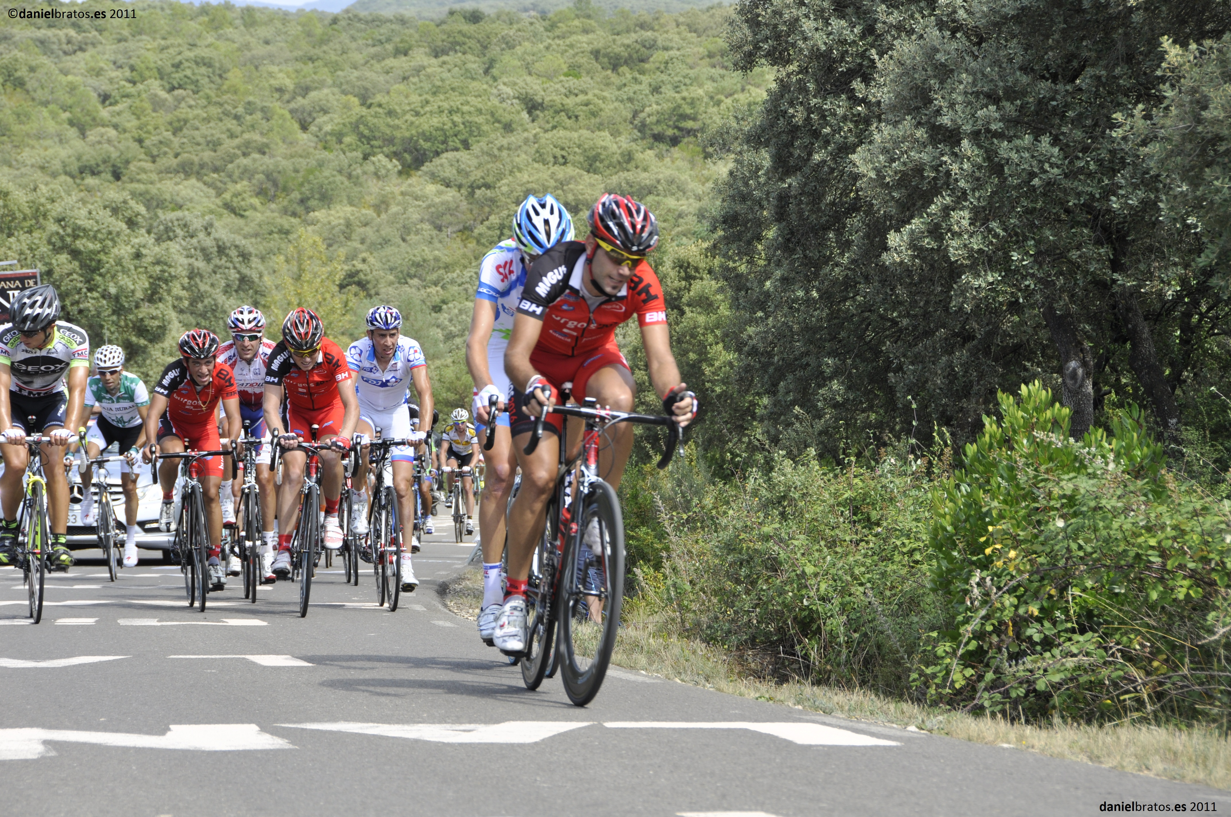 The peloton reaching the top of the San Juan del Monte in Miranda de Ebro, at the w:2011 Vuelta a Burgos.